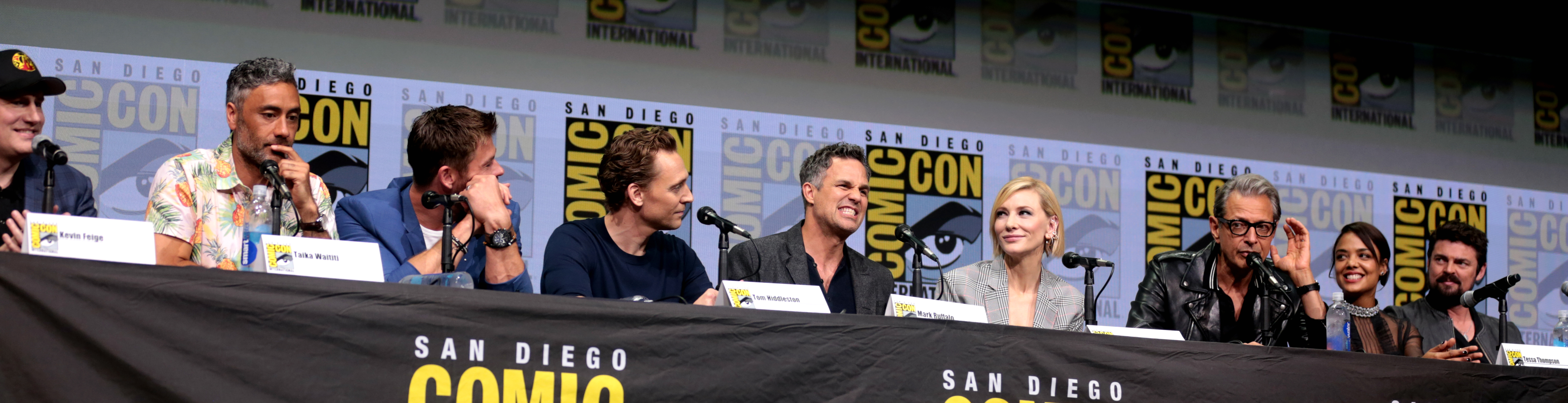 Kevin Feige, Taika Waititi, Chris Hemsworth, Tom Hiddleston, Mark Ruffalo, Cate Blanchett, Jeff Goldblum, Tessa Thompson, and Karl Urban speaking at the 2017 San Diego Comic Con International, for "Thor: Ragnarok", at the San Diego Convention Center in San Diego, California.